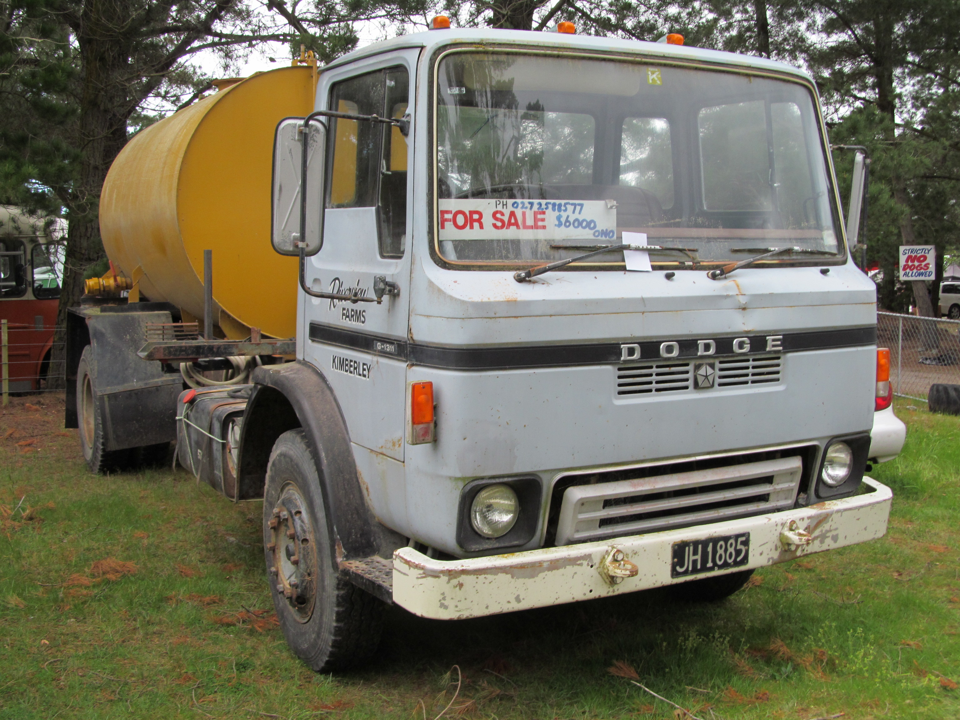 JH1885 I hadn't seen an old Dodge truck like this in years until this one, so I thought it was only appropriate to get a picture of what is a decent looking and now very rare truck. I believe these were called 'Commando' in the UK.